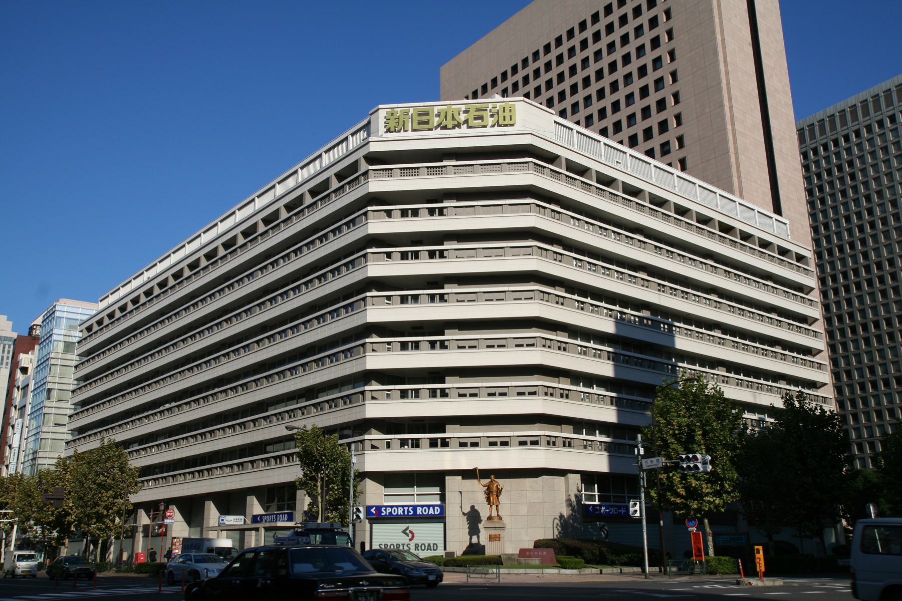 Japanese Nippon Oil Corporation head office in Minato, Tokyo.